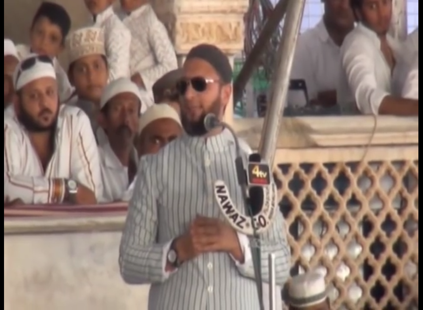 Asaduddin Owaisi giving a speech in Makkah Masjid